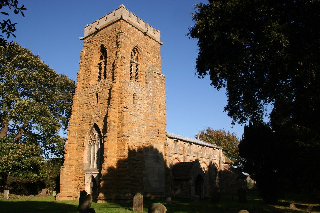 St.John the Baptist's church, Yarburgh, Lincs. A fire in 1405 destroyed an earlier church and St.John Baptist's was entirely rebuilt and Perpendicular throughout. It once had a south aisle and the arcades can be clearly seen. Sadly no longer a place of regular worship, but given a new lease of life by an enthusiastic group of hand-bell ringers and cared for by the Redundant Churches Fund.